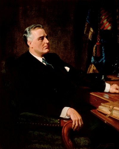 Franklin Delano Roosevelt - Presidential portrait. 32nd President of the United States (1933-1945)